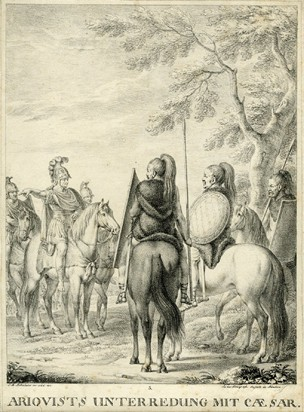 Ariovists Unterredung mit Caesar (Ariovistus' meeting with Caesar). Lithograph